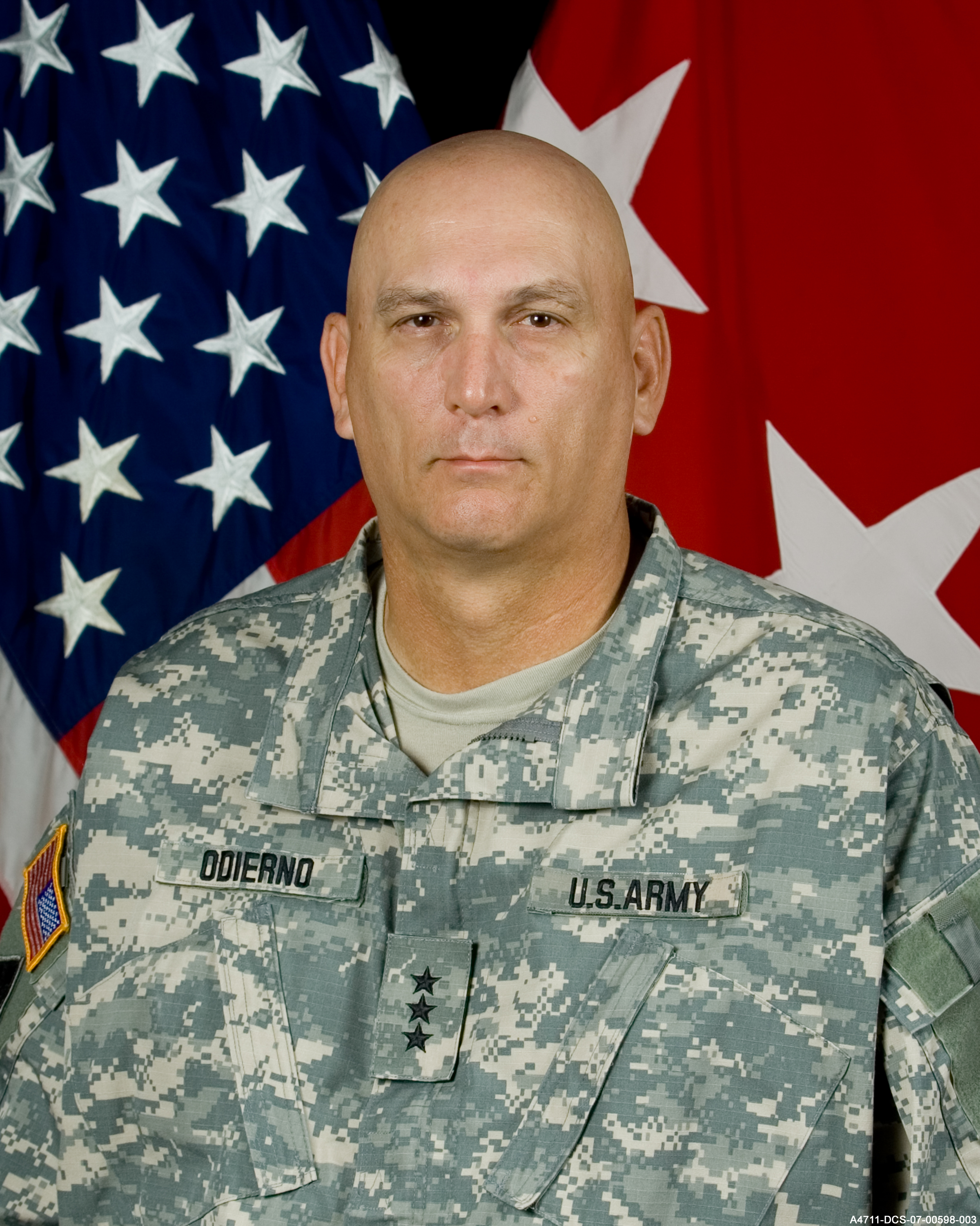 Lieutenant General Raymond T. Odierno, Commanding General, Multi-National Corps - Iraq.